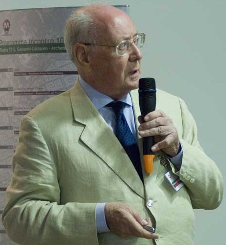 Giorgio Macchi in 2008